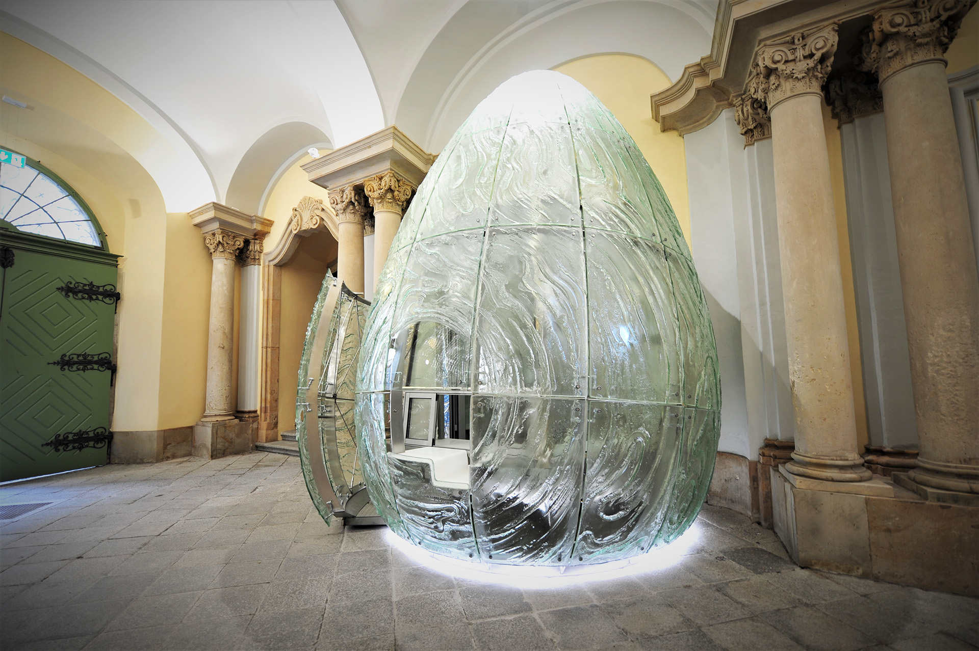 Glass art EGG as a concierge desk at the University of Wrocław, Poland. Artwork by ARCHIGLASS: Tomasz Urbanowicz & Konrad Urbanowicz